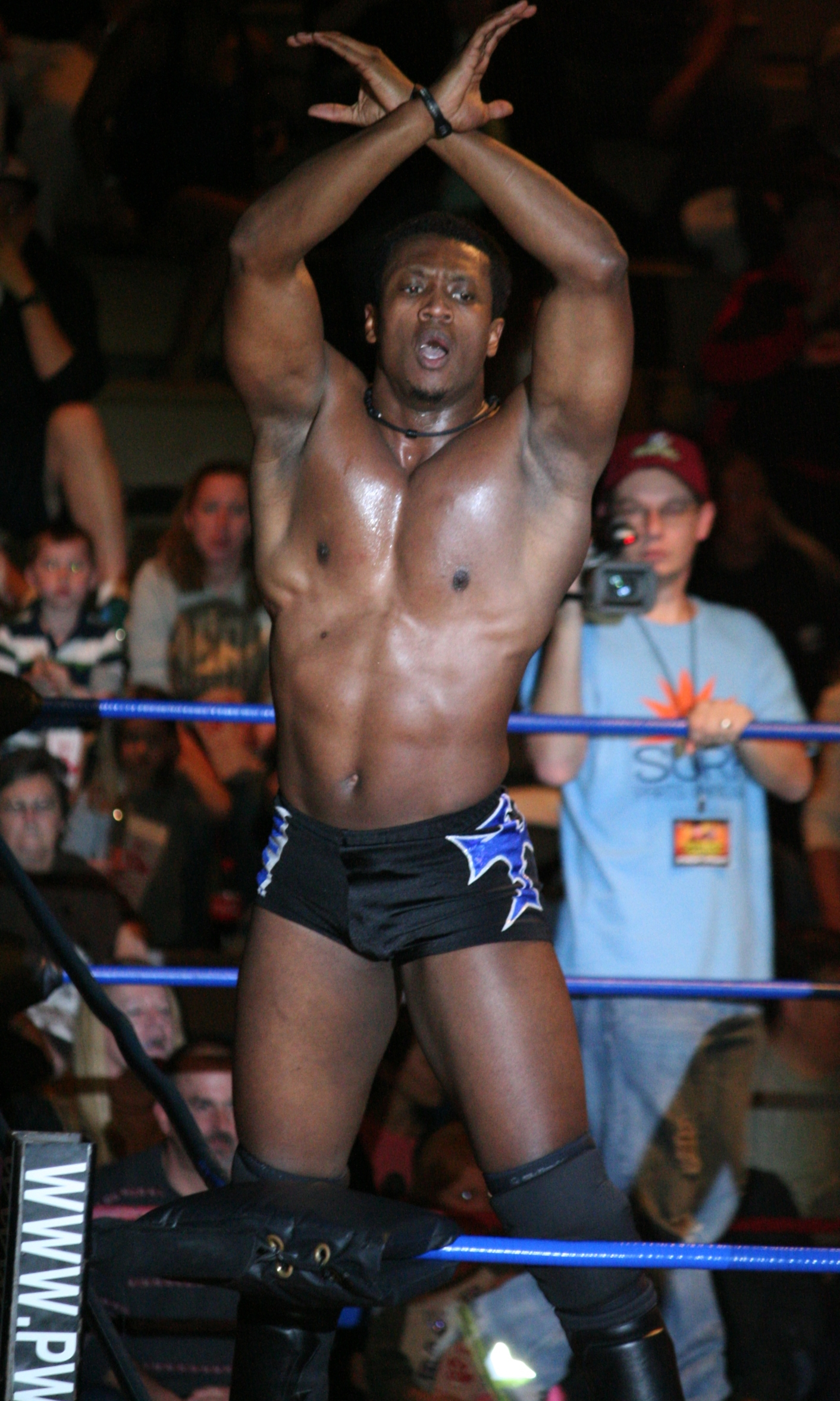 Caprice Coleman poses on the turnbuckles in January 2012, at the Chinlock for Chuck event in Durham, North Carolina.